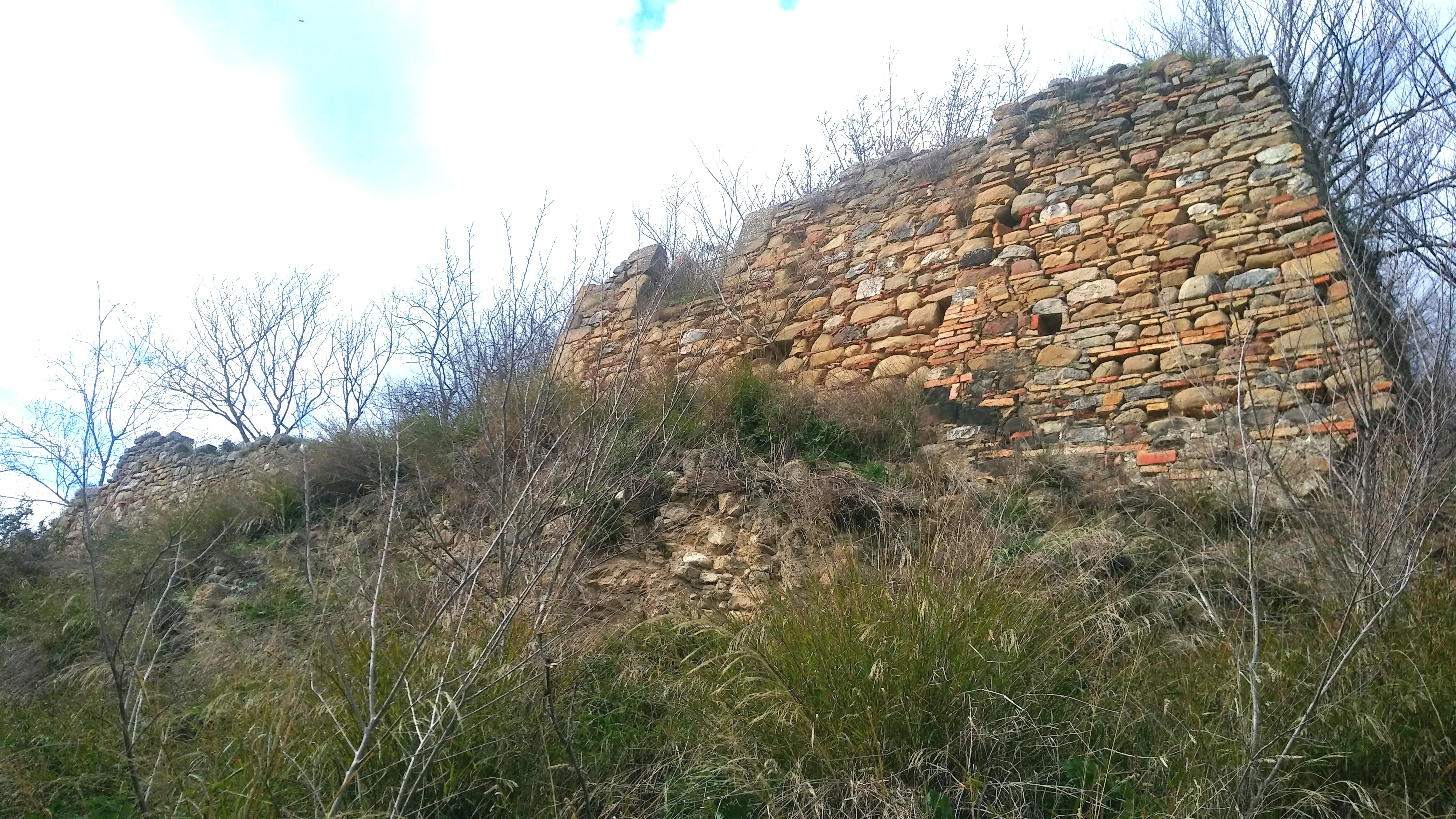 Corsano castle, Montecalvo Irpino, Italy. During the Middle Age, Corsano was a village within the diocese of Ariano (now Ariano Irpino), but it was abandoned after the plague of 1656.